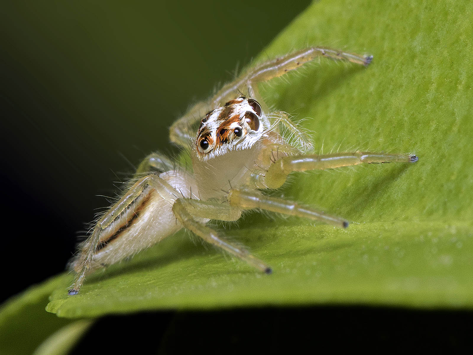 Telamonia dimidiata, Family: Salticidae, Tribe: Plexippini 7mm female spider on Lemon leaf. shot with diffused internal flash The two-striped jumper, or Telamonia dimidiata, is a jumping spider found in various Asian tropical rain forests, in foliage in wooded environments. The female is light yellowish, with a very white cephalus and red rings surrounding the narrow black rings round the eyes. Two longitudinal bright red stripes are present on the opisthosoma. The male is very dark, with white markings, and red hairs around the eyes. They appear in Singapore, Indonesia, Pakistan, Iran, India, and Bhutan. Telamonia Dimidiata are non-venomous and produce no toxin significant to humans. ____________________________ This spider shows sexual dimorphism – the male and female do not resemble each other and could each be mistaken for a separate species.